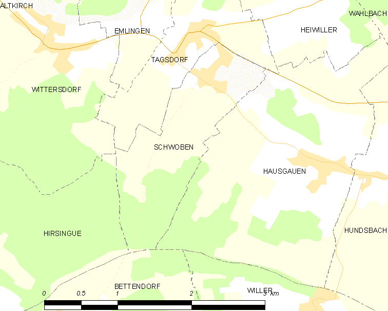 Map of French municipality